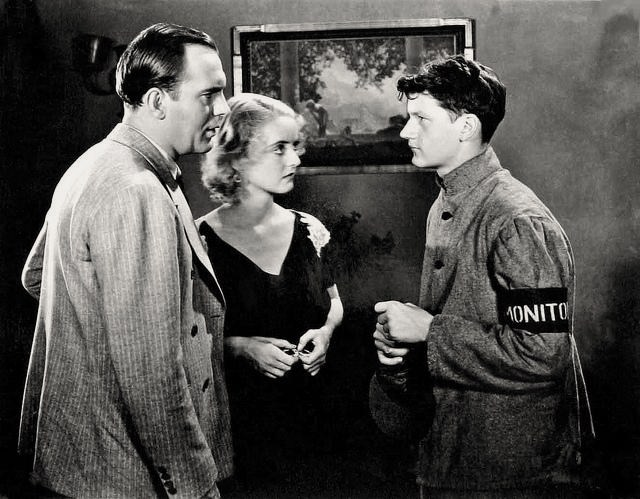 L. to R. : Pat O'Brien, Bette Davis & Junior Durkin in Hell's House - original image damaged (see source), modified